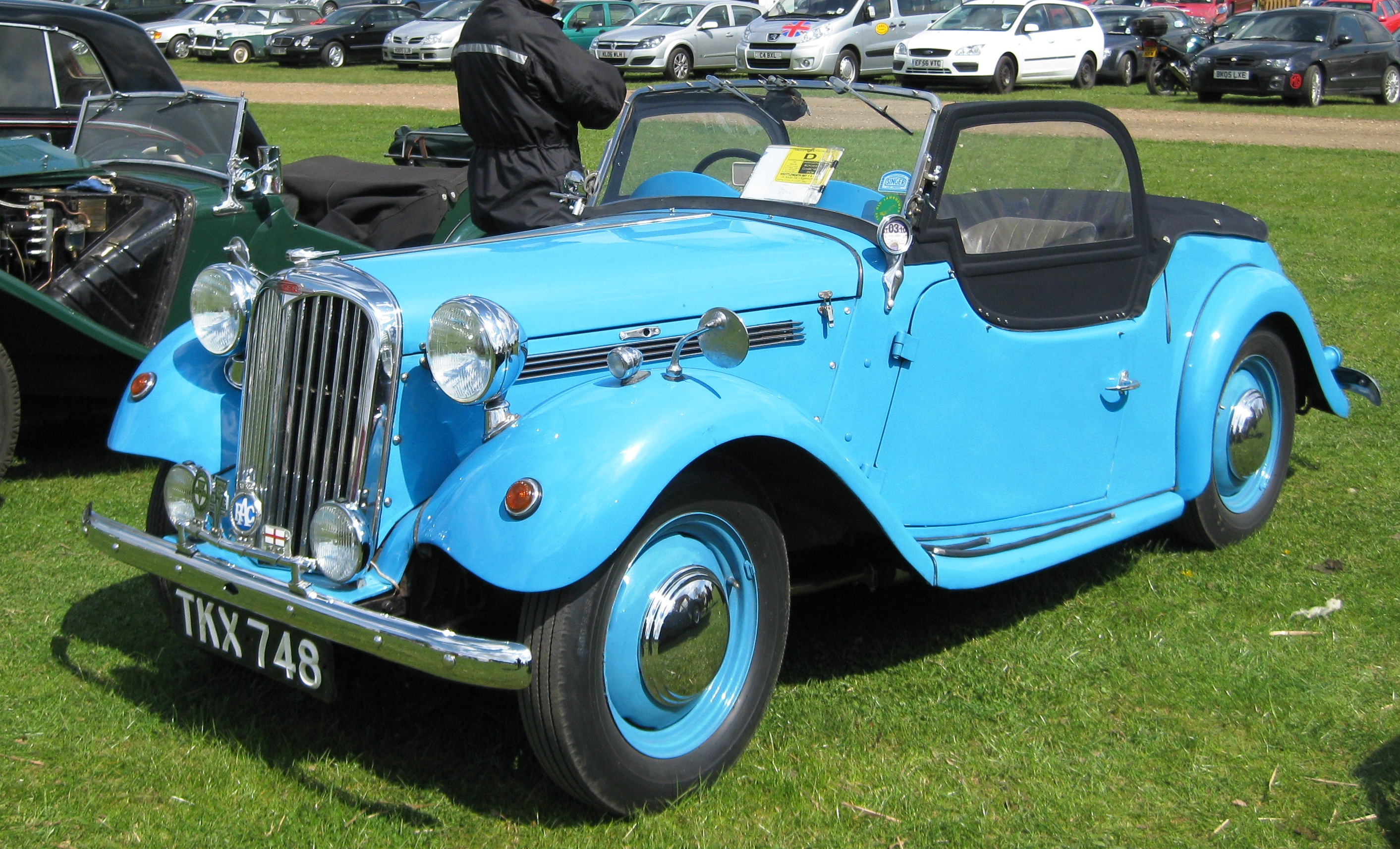 Singer SM Roadster near Biggleswade